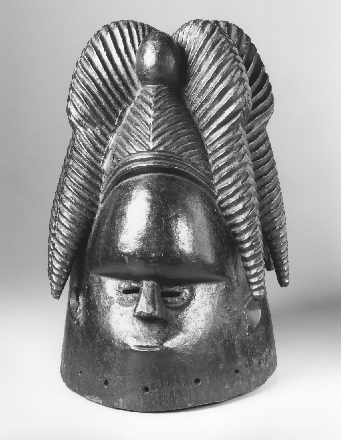 Wooden helmet mask framed by intricate coiffure. Bulbous forehead projects as a ridge over facial features: eyes as 2 incised slits (one slightly higher than the other); blocklike nose, wider at base than at top; mouth as a lightly incised depression in area of chin which swells outward; ears at sides as inverted c-forms with a raised ridge. Coiffure; series of six ridged lobes of hair-resembling horns that extend from the crown to the sides of the head and taper to a point at the tips; surface ridges take on a herringbone-like configuration; 2 knoblike protrusions at either end (front and back-back knob perforated by a circular hole); series of parallel horizontal holes around perimeter of base. Color: black Condition: Good. Proper right side: break in surface between 1st and 2nd lobes of hair patched with a piece of tape painted black. Crack along contour of 1st lobe of hair also patched with tape. 2 cracks in surface of crown. Slight chipping off of coiffure tips, proper left side of nose.